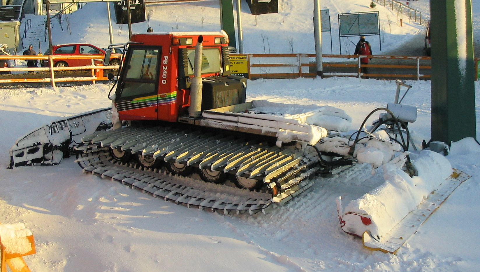 Ski slope in Przemyśl, Poland - Snow groomer PistenBully PB 240 D